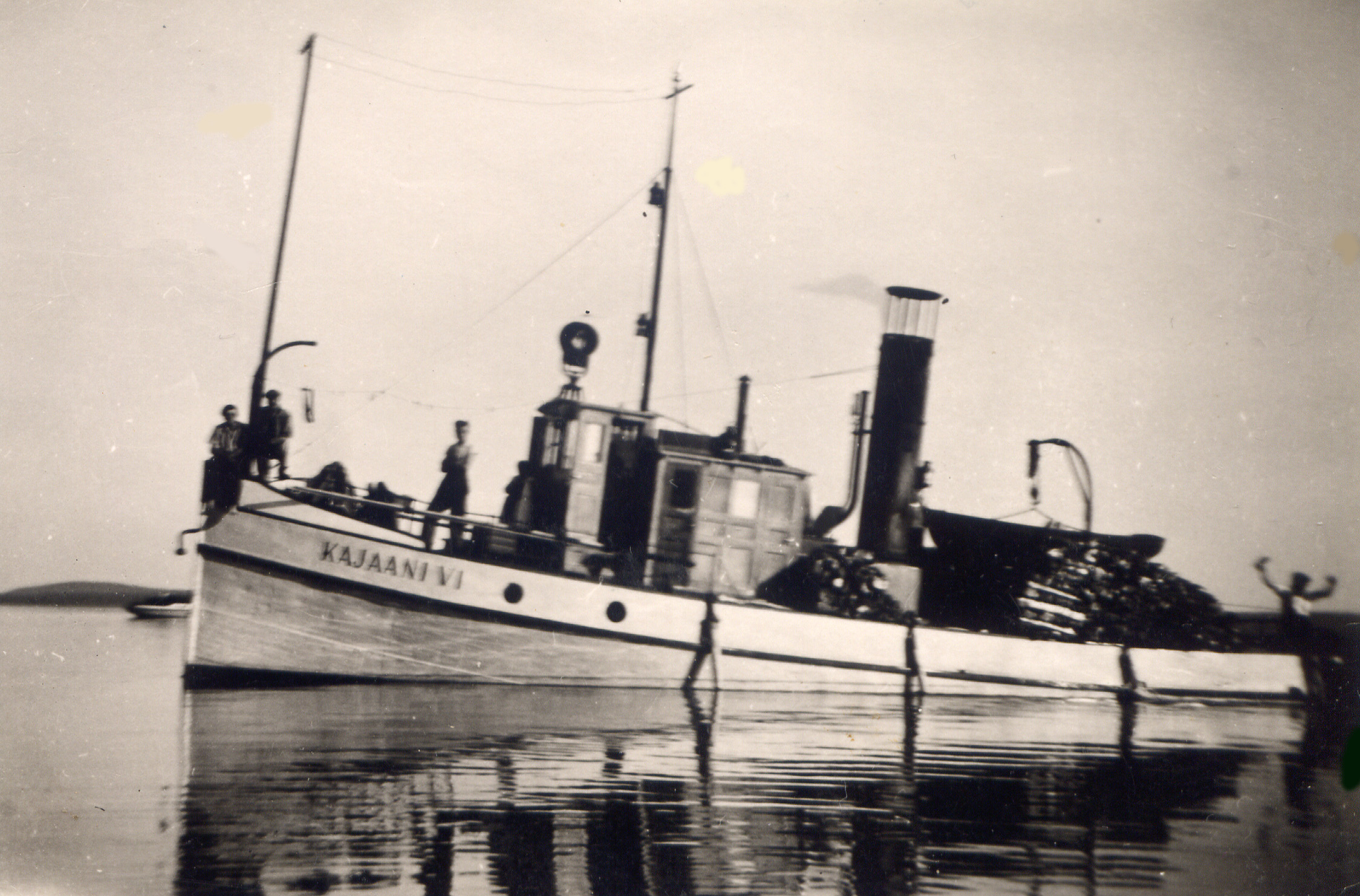 Kajaani VI is one of the old steam Vessels used in lake Oulujärvi